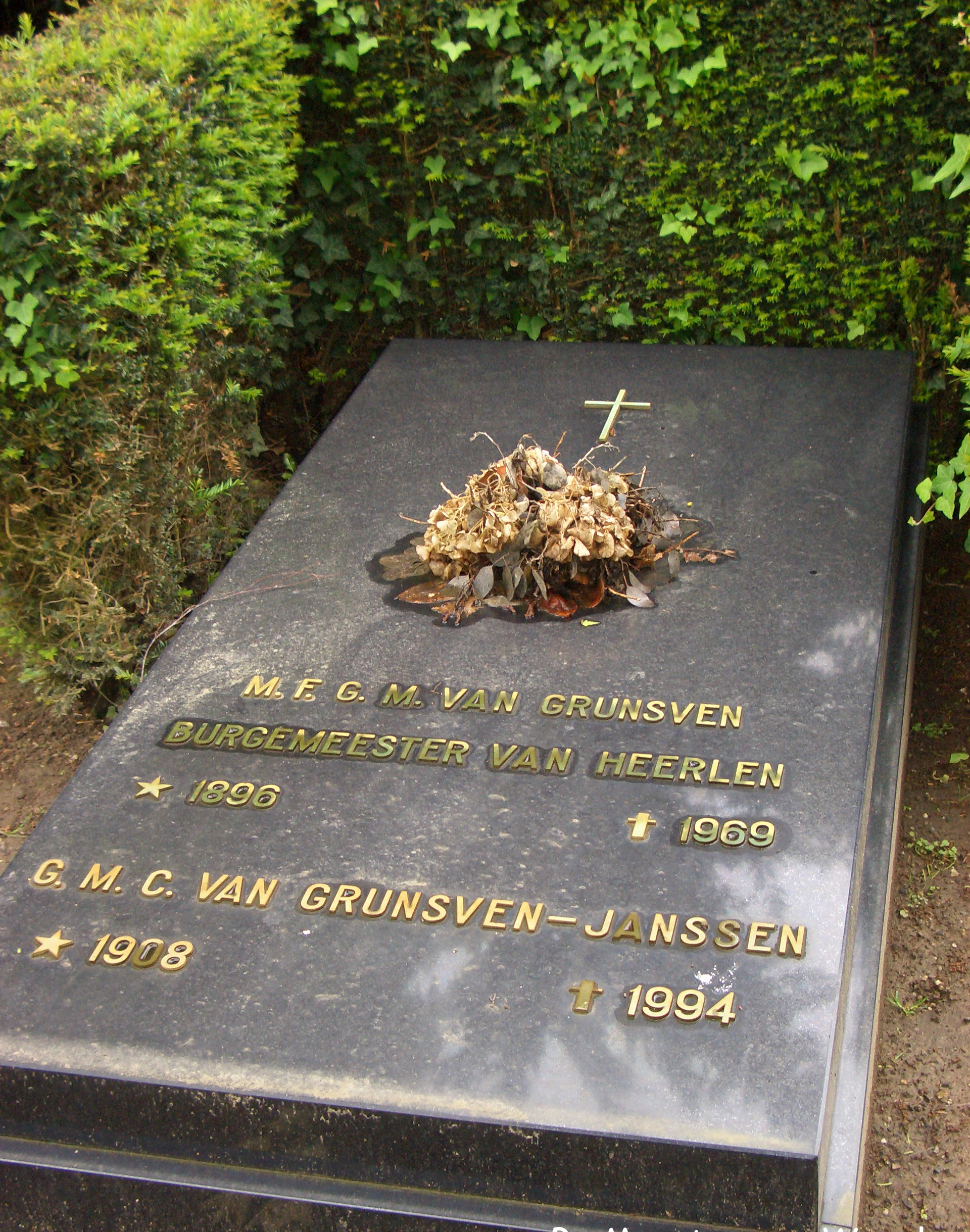 Picture taken by myself, Maarten van Wesel, of the grave of Marcel van Grunsven and his wife on the 27th of may, 2006